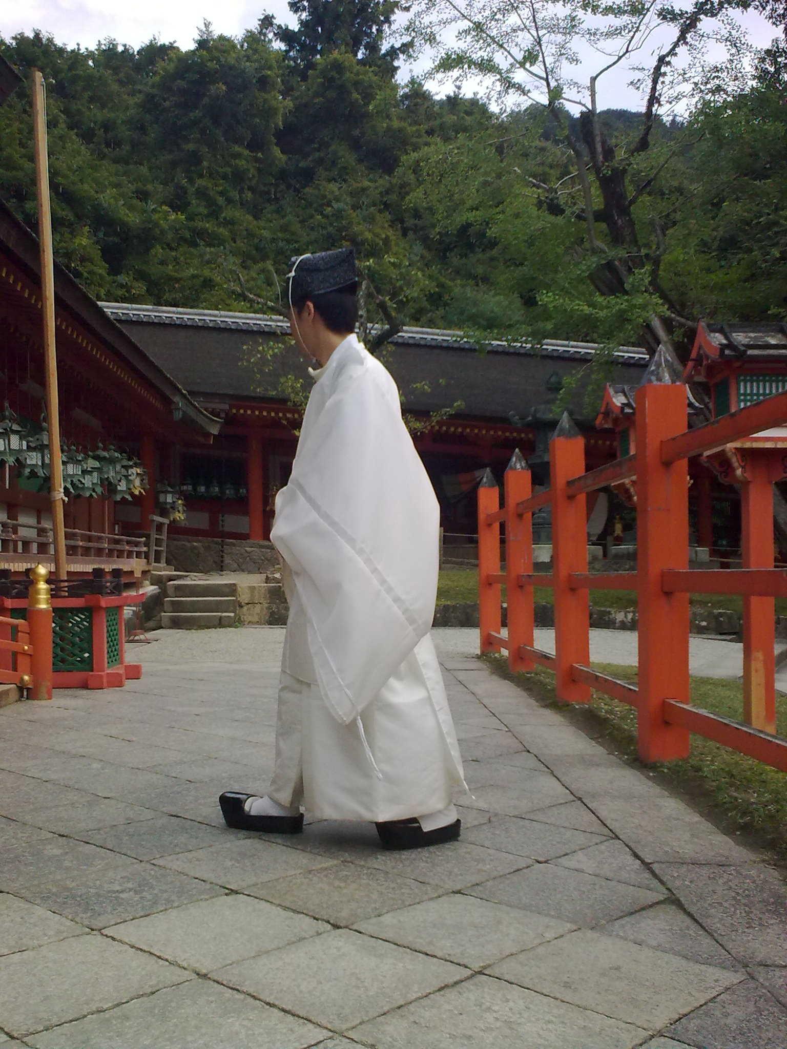 Shinto priest